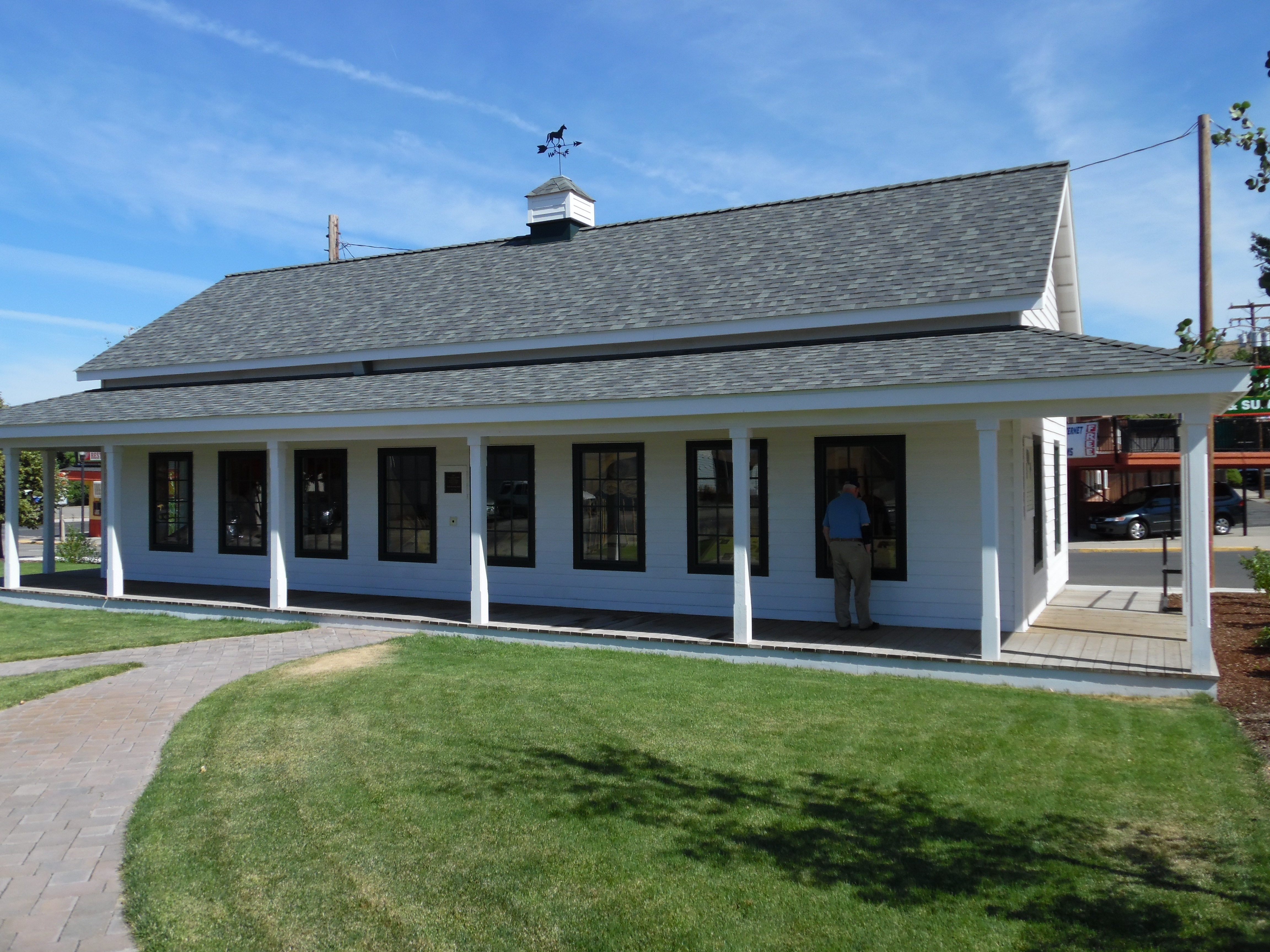 MC Chuckwagon and Western Heritage Exhibit in Lakeview, Oregon